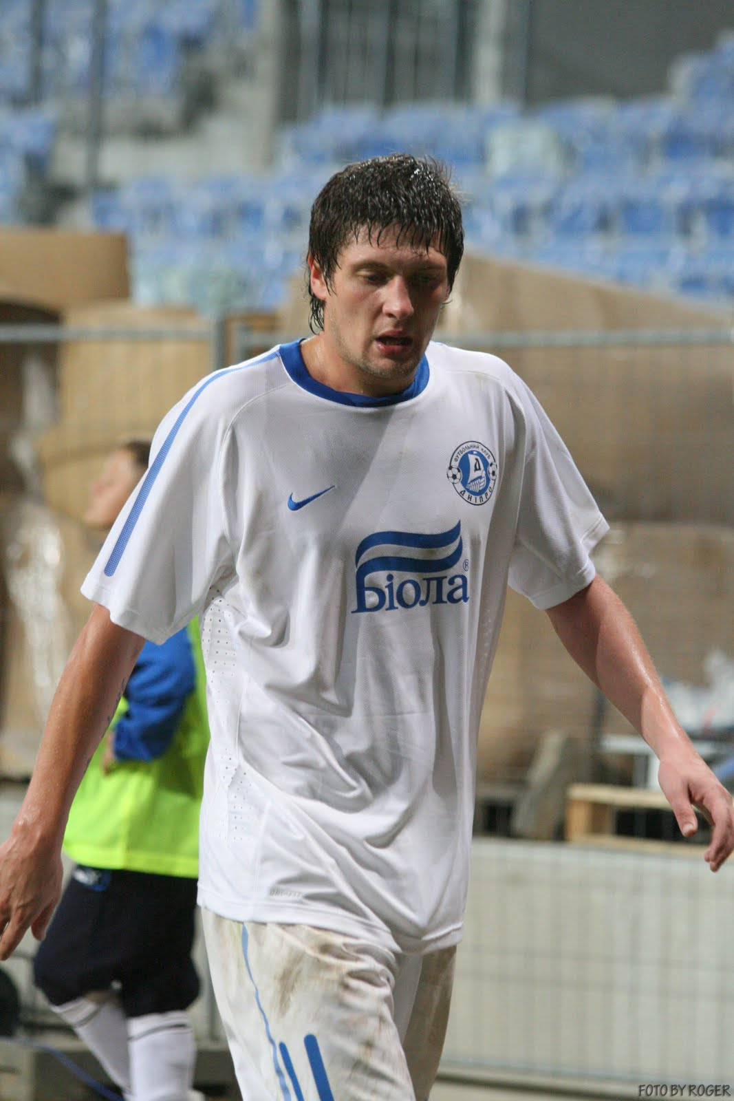 Ukrainian football player Yevhen Seleznyov during Europa League qualifier between KKS Lech Poznań and FK "Dnipro" Dnipropetrovsk